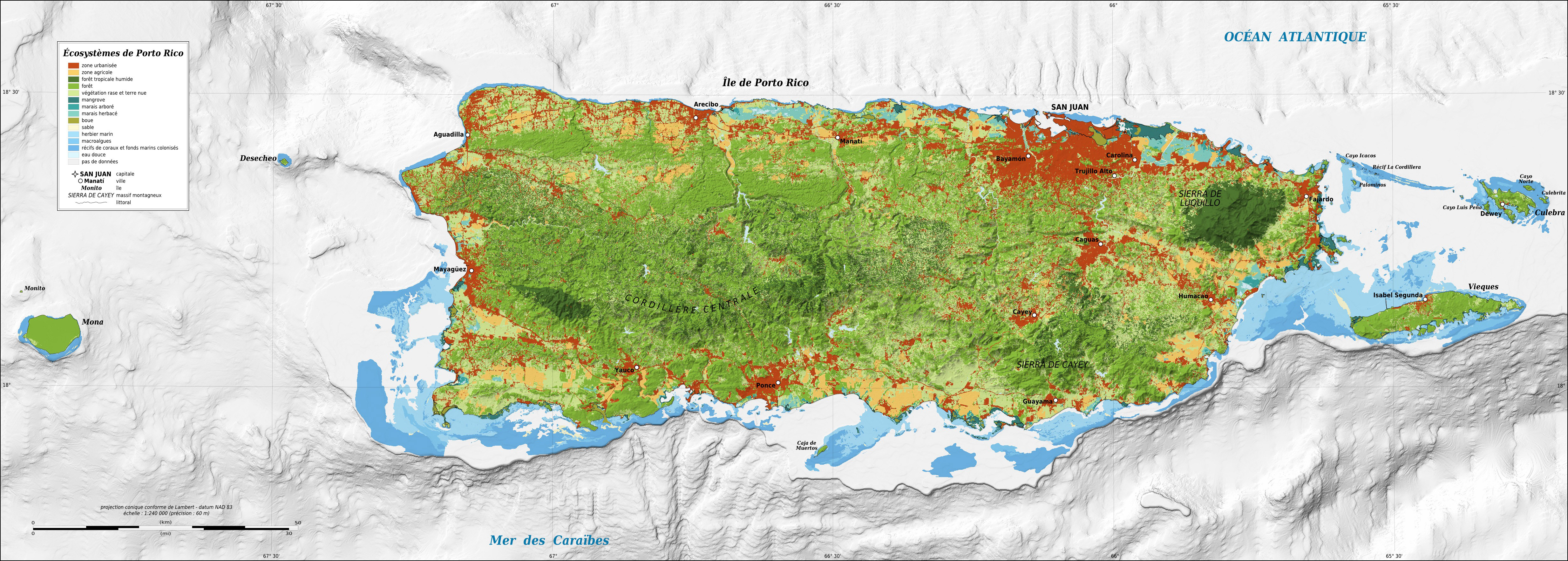 Map in French of the ecosystems of Puerto Rico.